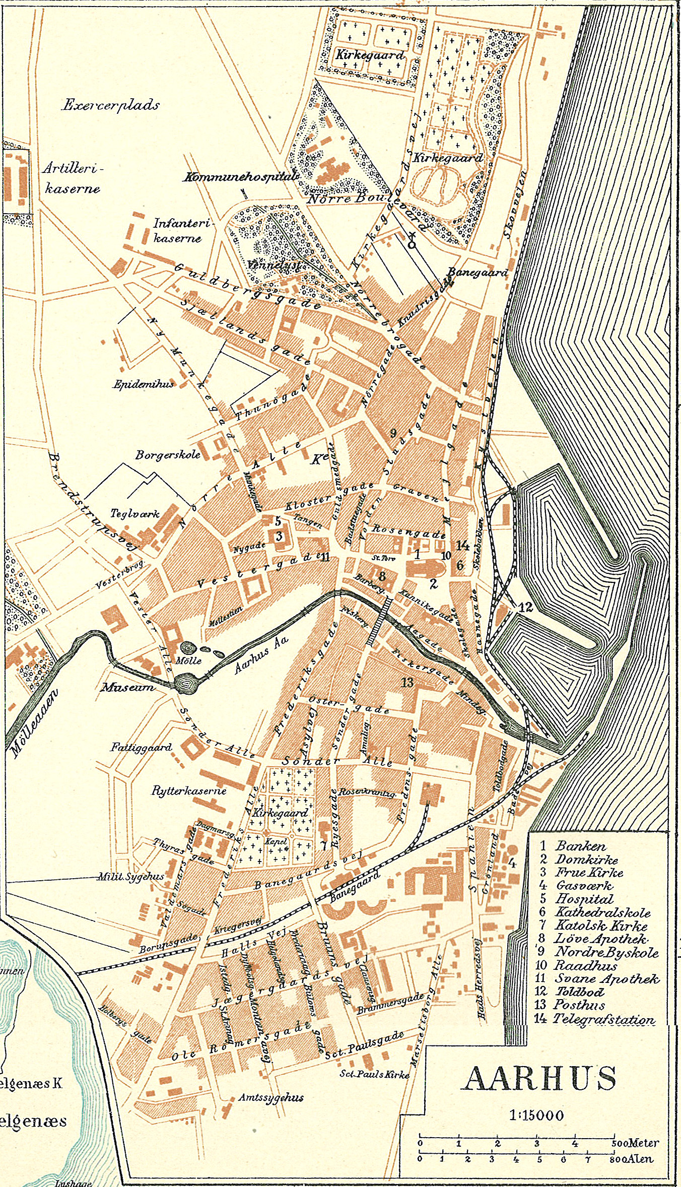 Map of Aarhus in Denmark